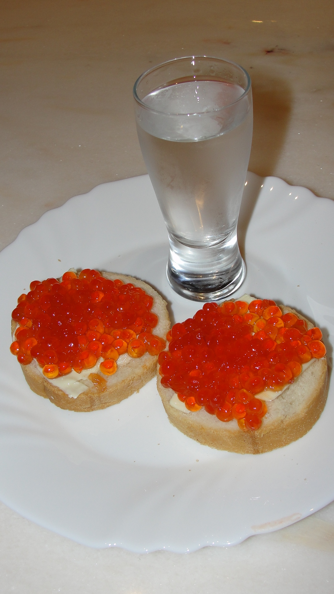 Sandwich with salmon eggs with a shot of Stolichnaya vodka ready for consumption. Moscow, Russia.